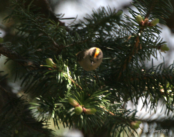 Goldcrest Regulus regulus at 11,500 ft. in Kullu District of Himachal Pradesh, India.